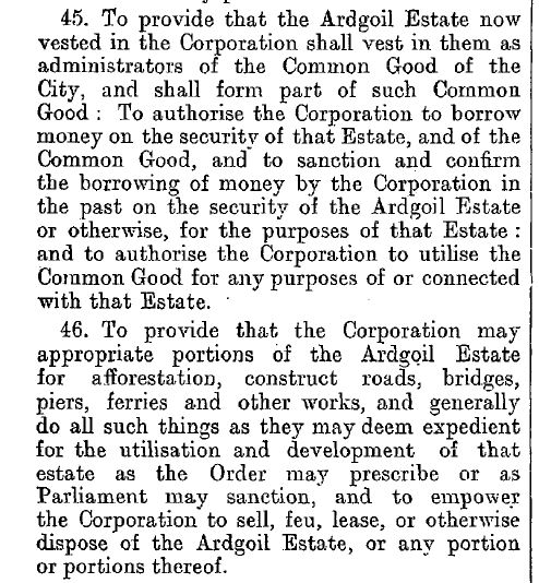 Clipping of Edinburgh Gazette 17th Nov. 1911